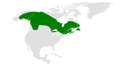 Poecile hudsonicus distribution map, based on